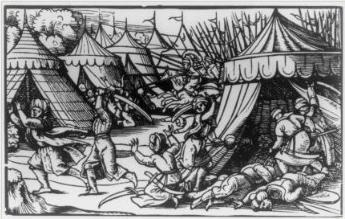 Engraving of an Albanian assault on a Turkish camp.